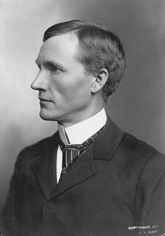 John Lind 14th Governor of Minnesota. Photographer: Charles Alfred Zimmerman (1844-1909) Photograph Collection 1899 Location no. por 14640 r3